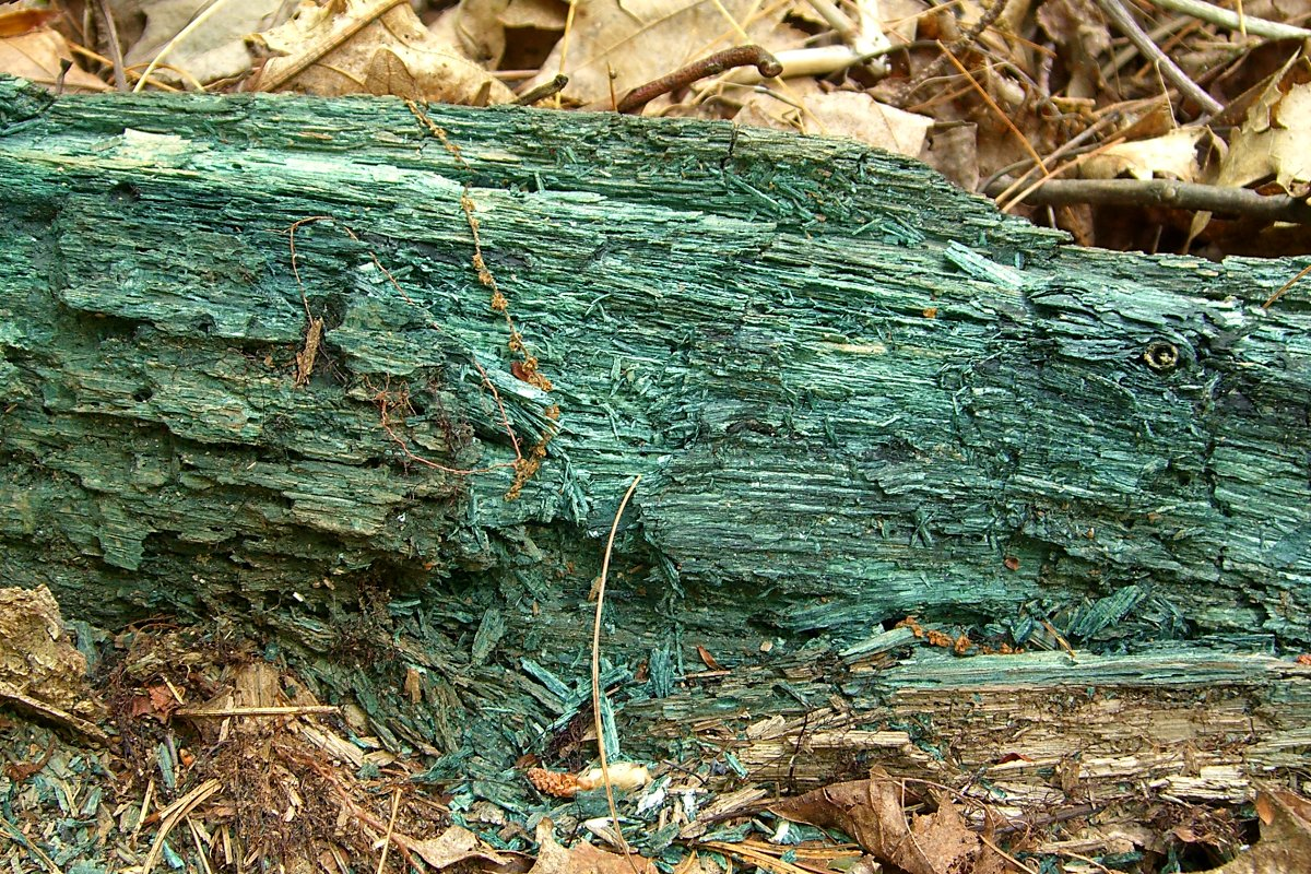 Scientific Name: Chlorociboria aeruginascens (Nyl.) Kan. Common Name: Green Stain Certainty: positive notes ( Location: Southern Appalachians; Smokies; Cataloochee Stained rotten wood. This omnipresent green stain is due to the mycelia of a microscopic mushroom. The next photo in the "weird stuff" set is a close-up of the fruiting body.